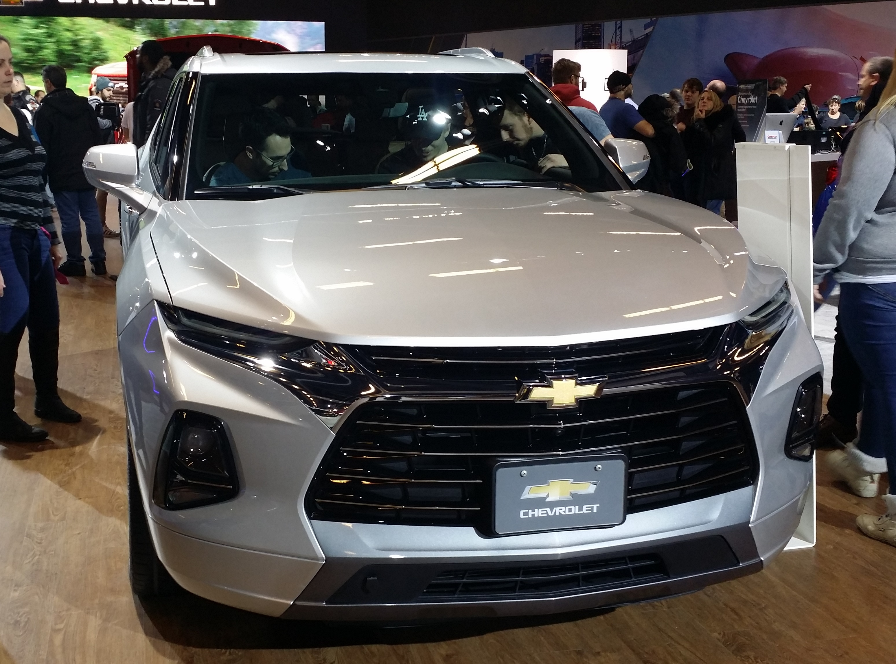 2019 Chevrolet Blazer photographed in Montréal , Québec , Canada at the 2019 Montréal International Auto Show.